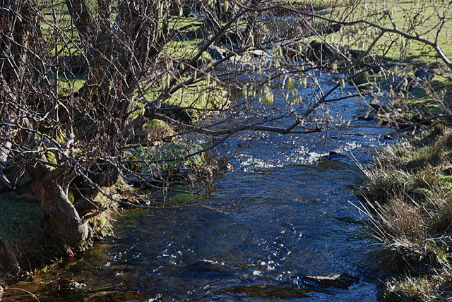 Afon Dyffryn-gwyn The main river flowing down the valley.